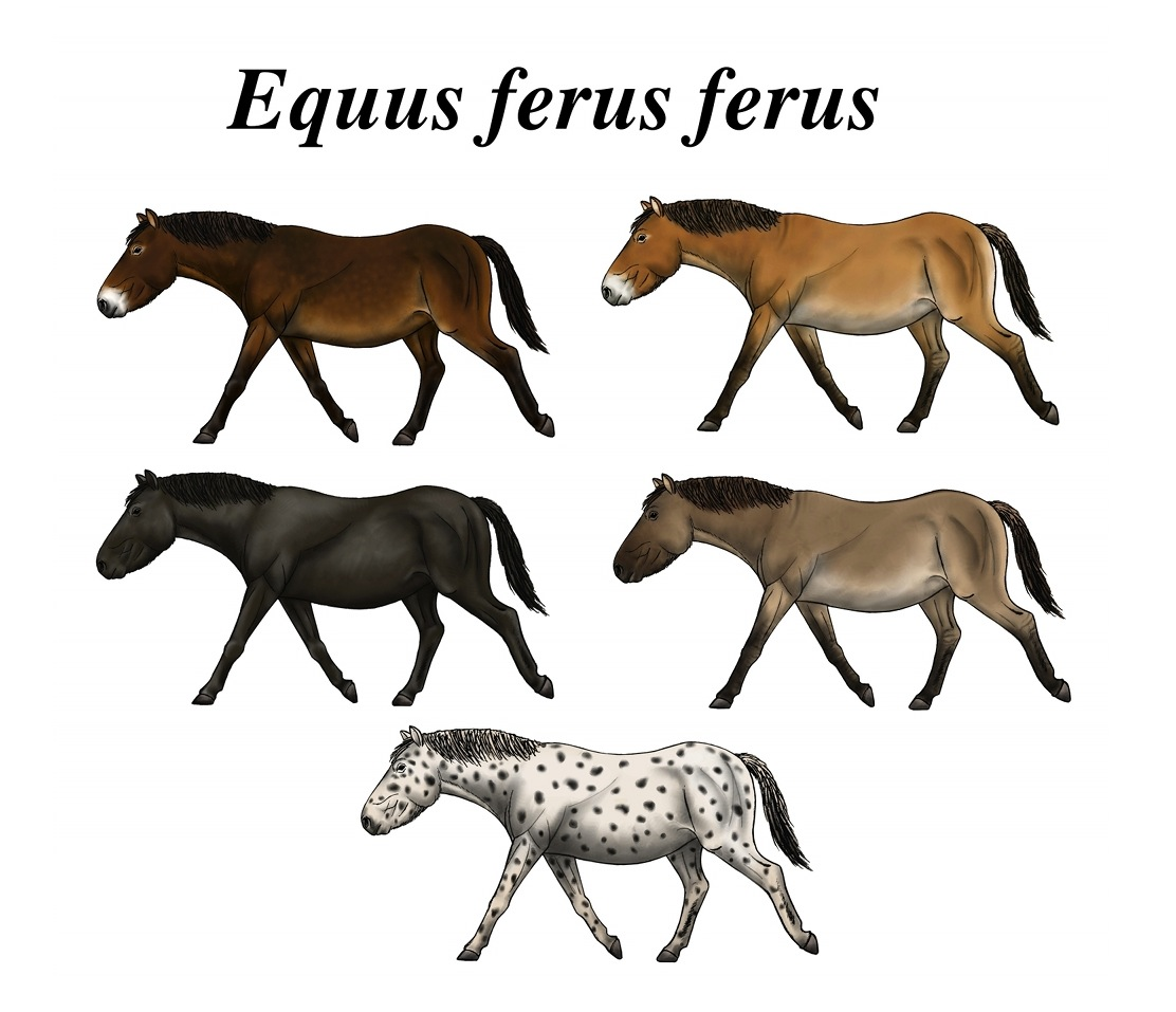 Reconstruction of the 5 possible phenotypes of European wild horses. The coat colors are based on genetic and historic evidence. The head shape, body shape and proportions are based on those of living wild horses and on historic descriptions.